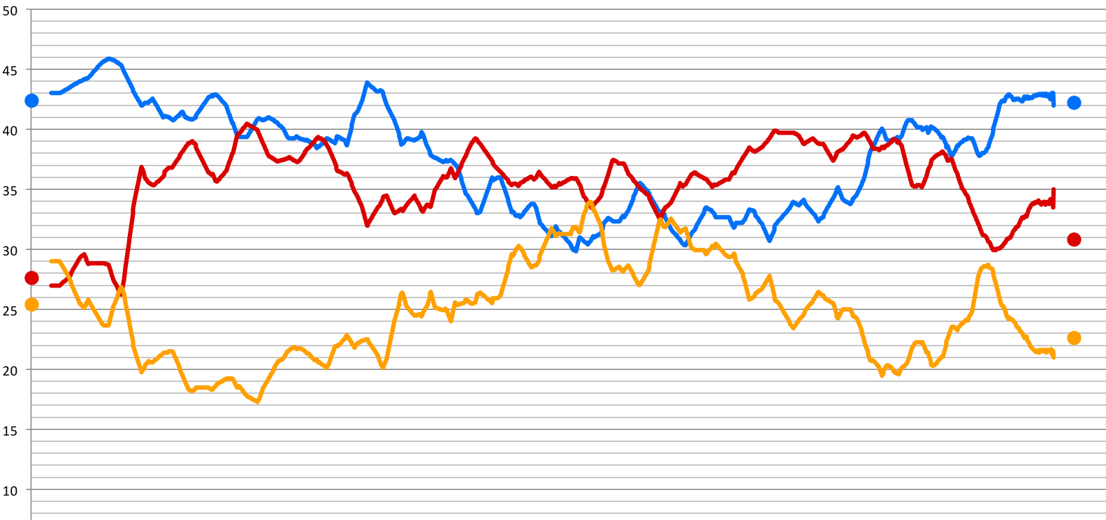 Opinion polling from 1983 to the 1987 UK general election